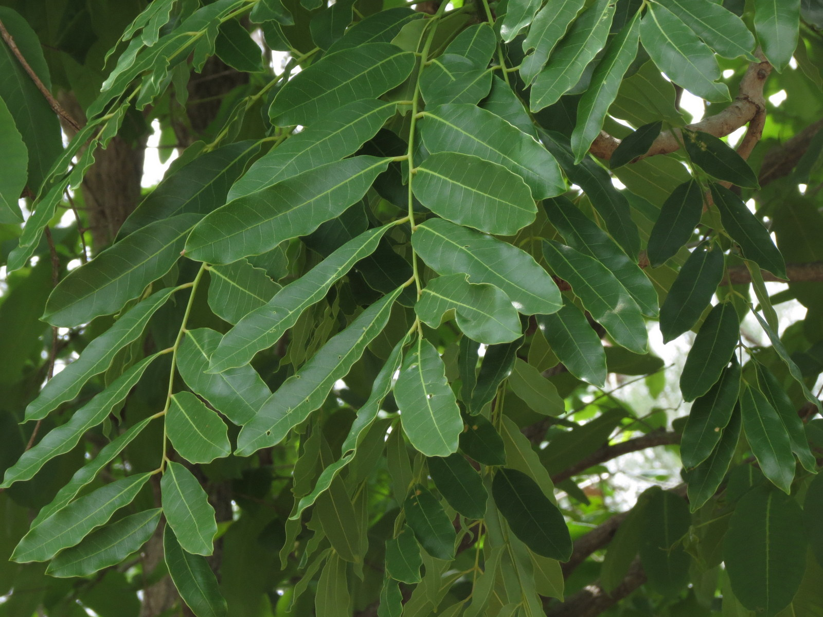 Khaya senegalensis leaf seen in Nilgiri biosphere nature park, Anaikatty coimbatore